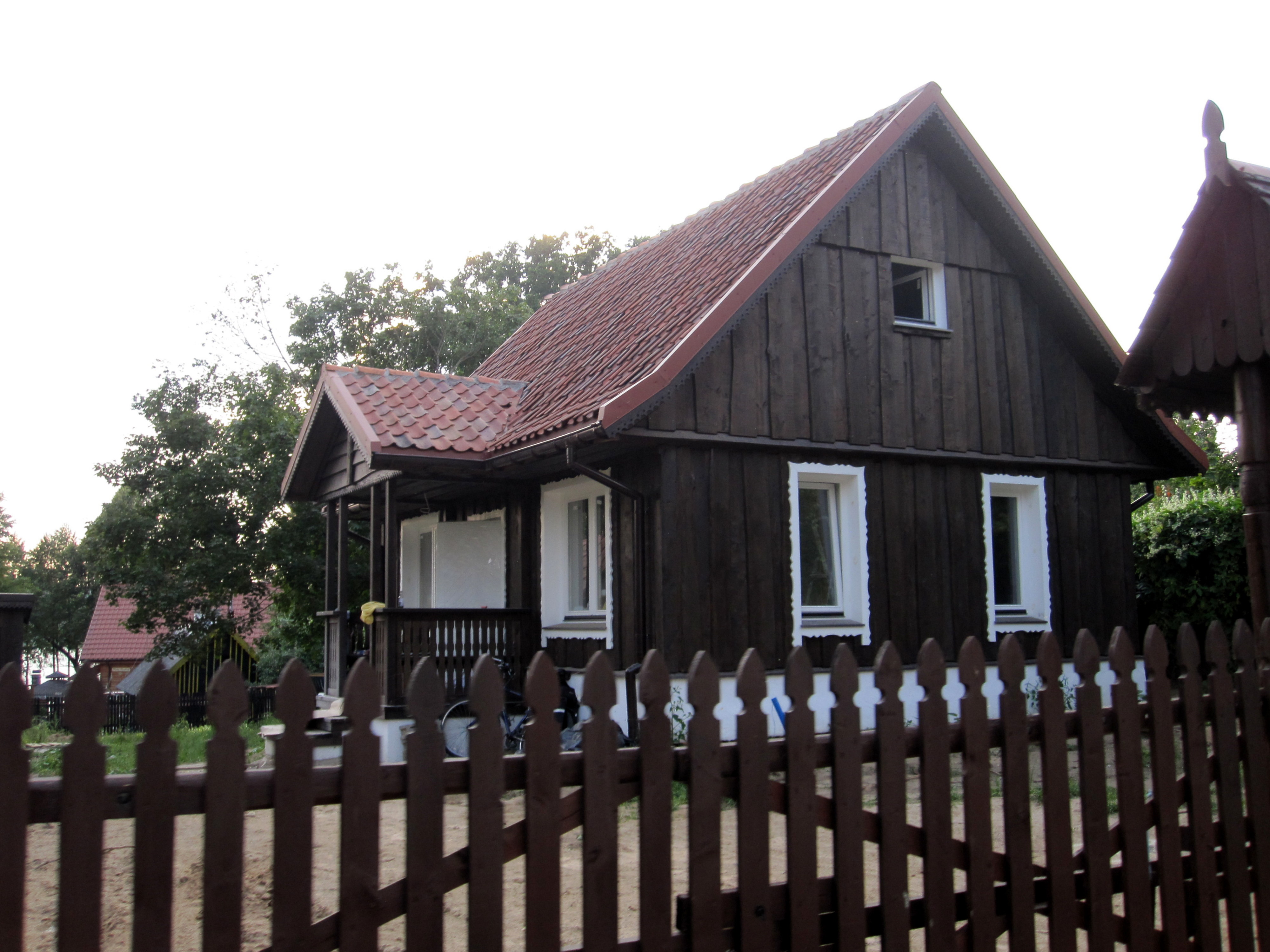 Cottage in Nowy Zyzdrój